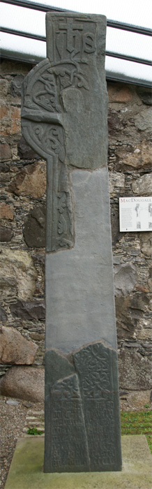 Ardchattan Priory, Argyll and Bute, Scotland - MacDougall Cross (front)